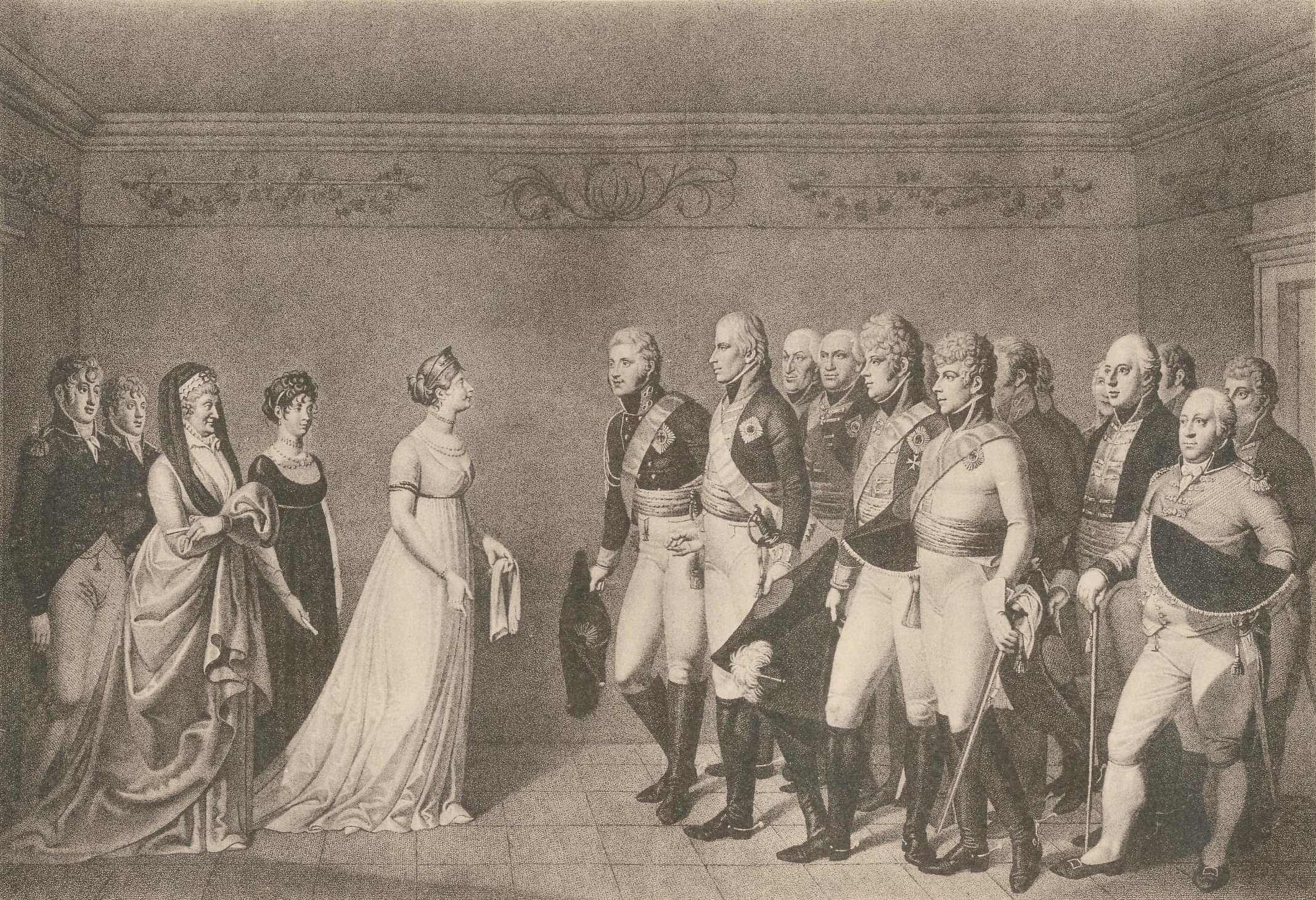 Alexander I, Czar of Russia, meeting King Frederick William III and Queen Louisa in Memel. 1802